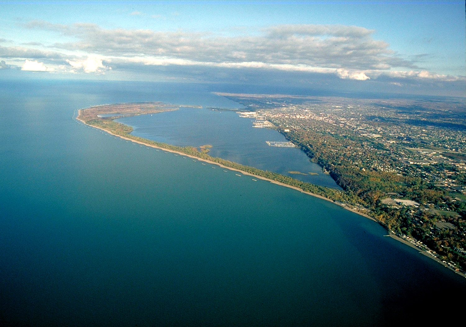 Aerial view of Presque Isle State Park on Lake Erie near Erie, Pennsylvania, USA. View is to the east-northeast. The U.S. Army Corps of Engineers built 55 off-shore segmented breakwaters to prevent the beach erosion problem at Presque Isle State Park that caused the loss of this important recreational site and environmental habitat for wildlife.